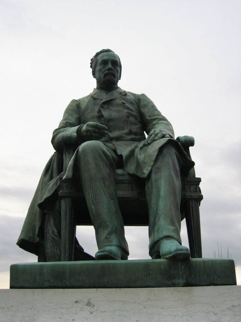 H. Daillion (french sculptor, 1854-1937) and Georges Debrie (french architecte): Louis Pasteur, statue erected in 1901, Arbois, Jura, France.